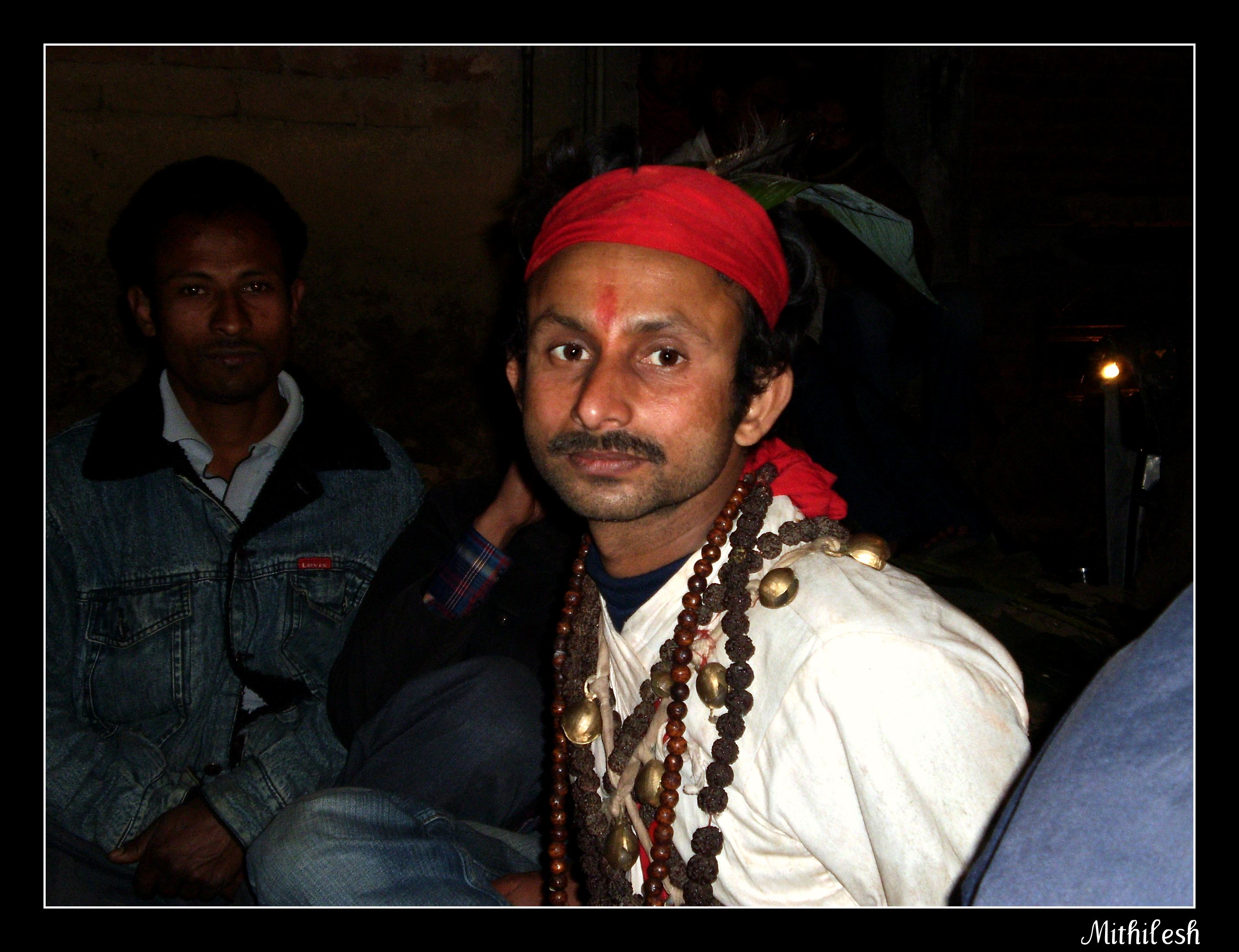 A Jhakri from Kalimpong